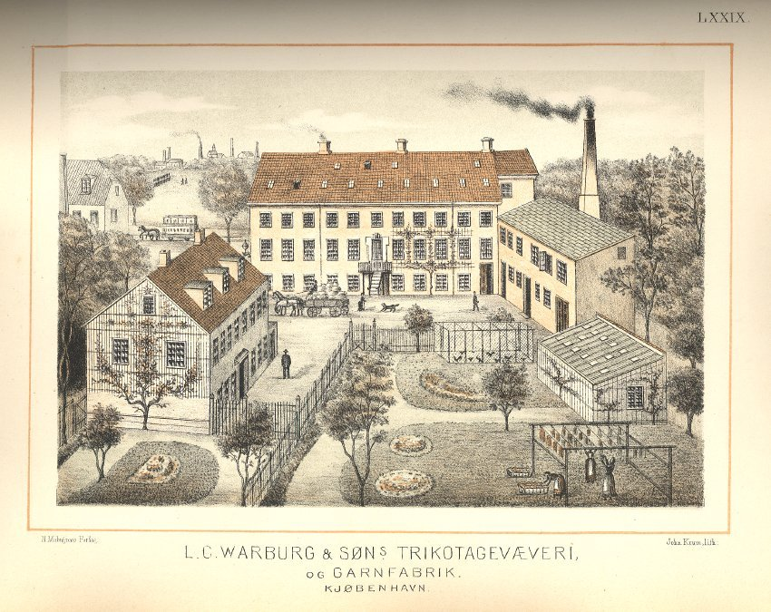 L. C. Warburg & Søns Trikotagevæveri og garnfabrik on Blegdamsvej in Copenhagen, Denmark